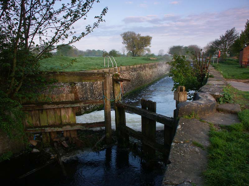 Wansford Lock, before restoration, on the Driffield Navigation, East Riding of Yorkshire. Near to Wansford, England.